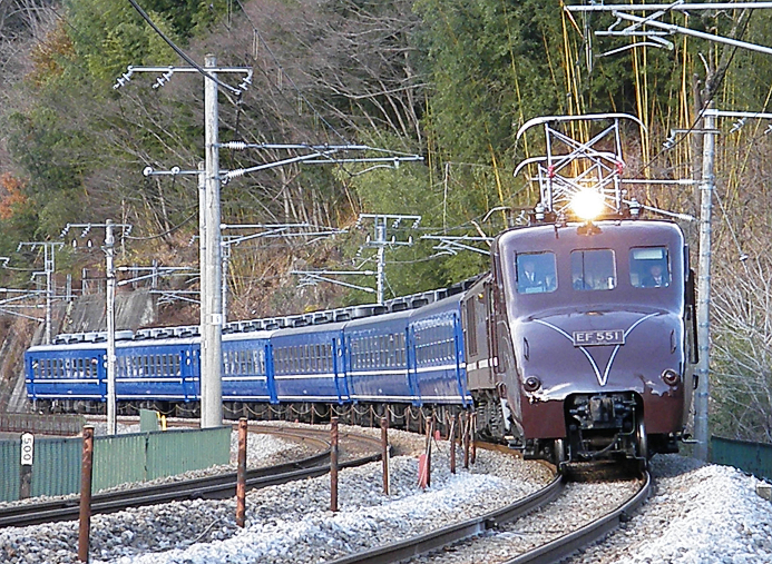 Rapid train "EL Okutone" has run. The above photo shows loco's double traction consists of EF55 1 & EF64 1001.